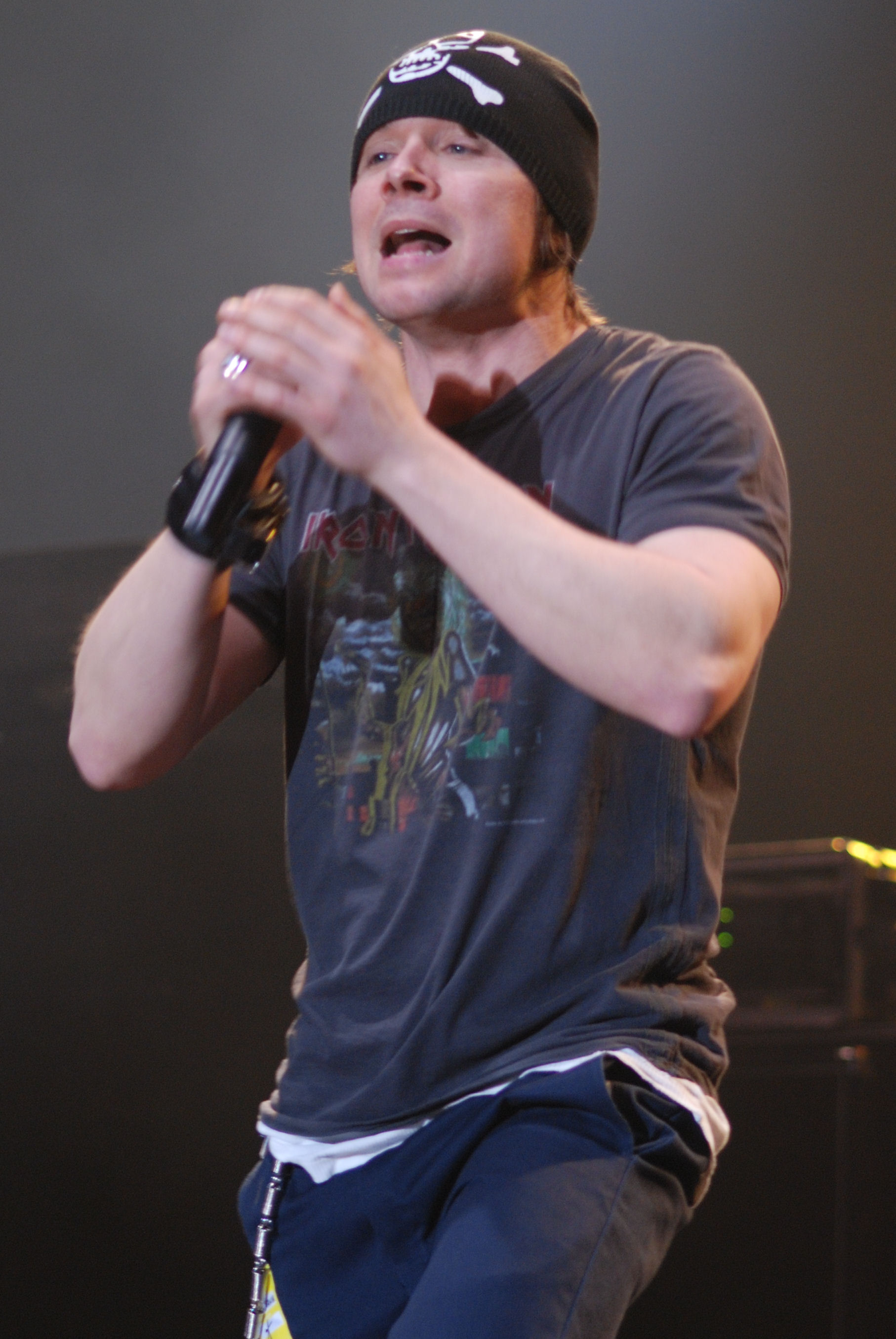 Soren Nico Adamsen from Artillery during Metalmania 2008 festival